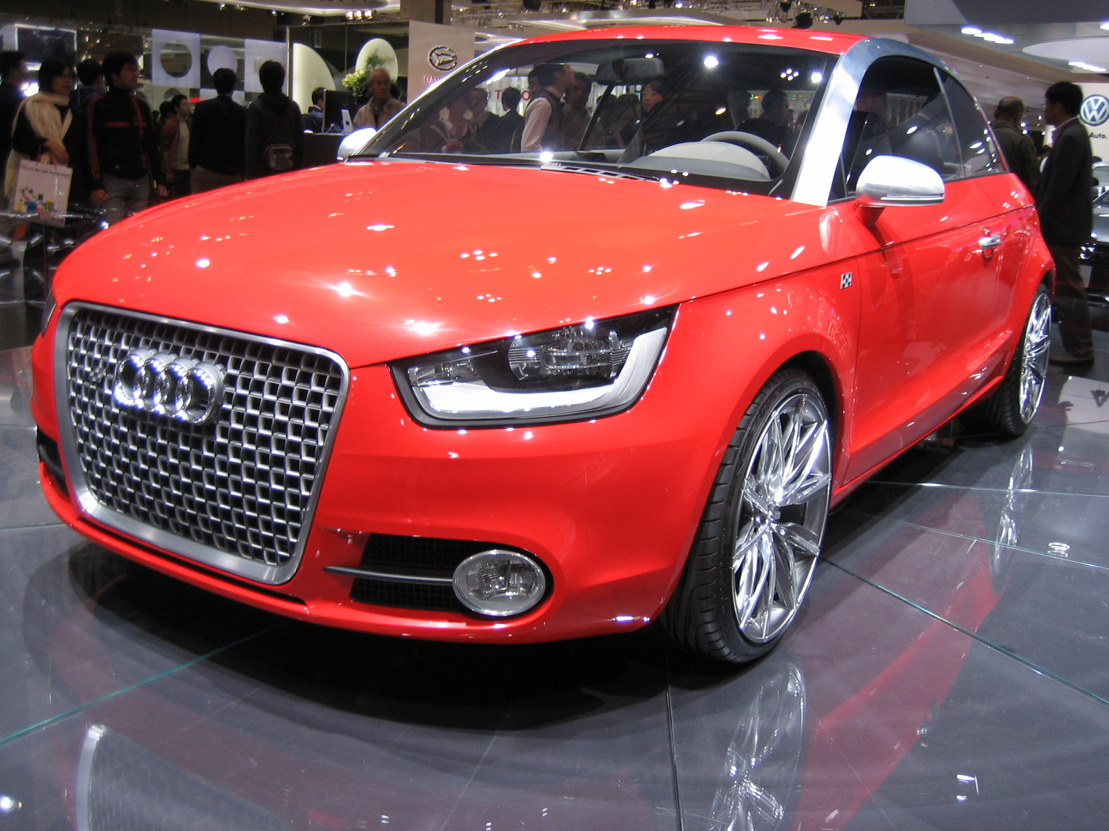 Audi Metro Project Quattro in Tokyo motor show 2007